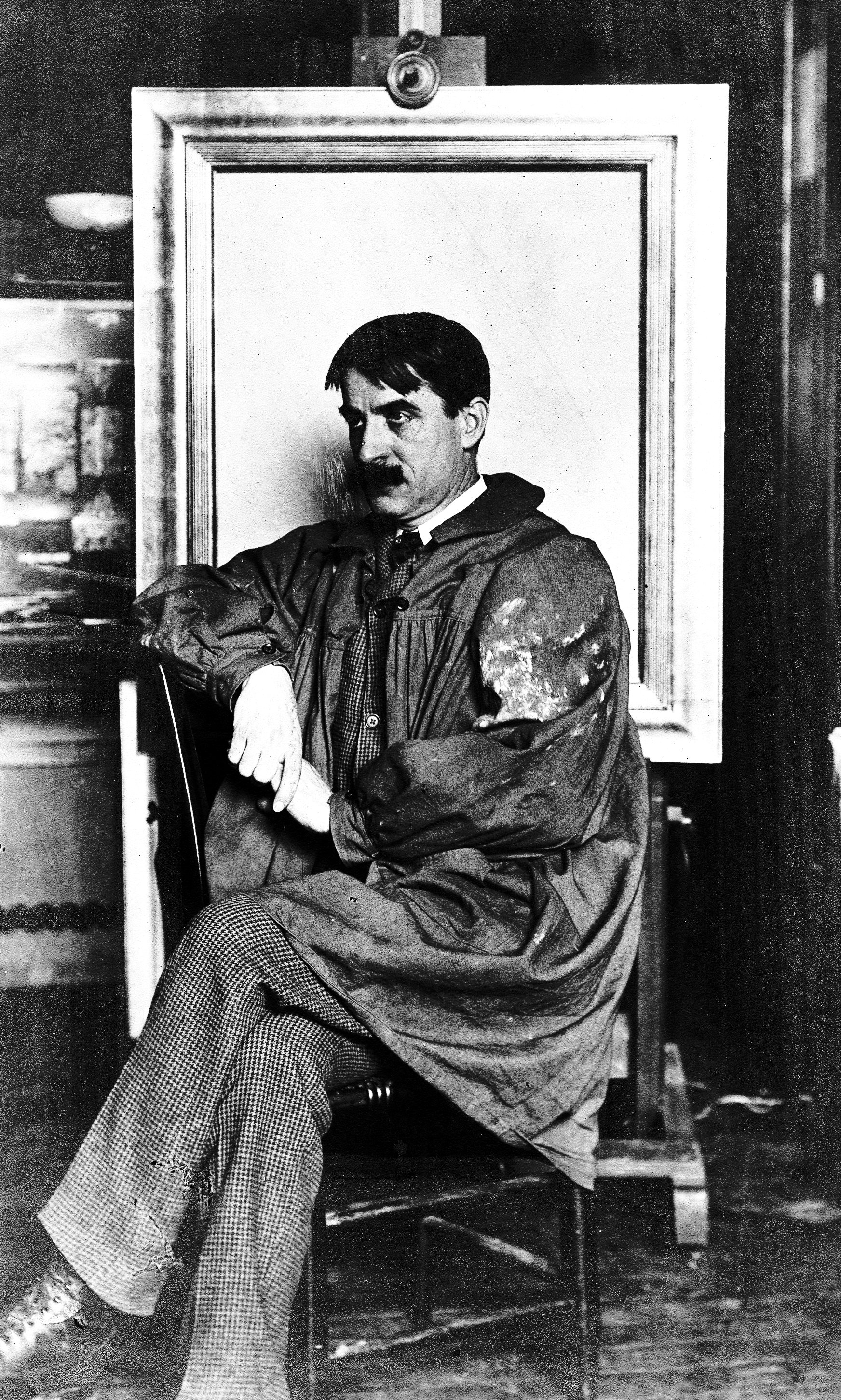 Crane, seated in front of an easel.